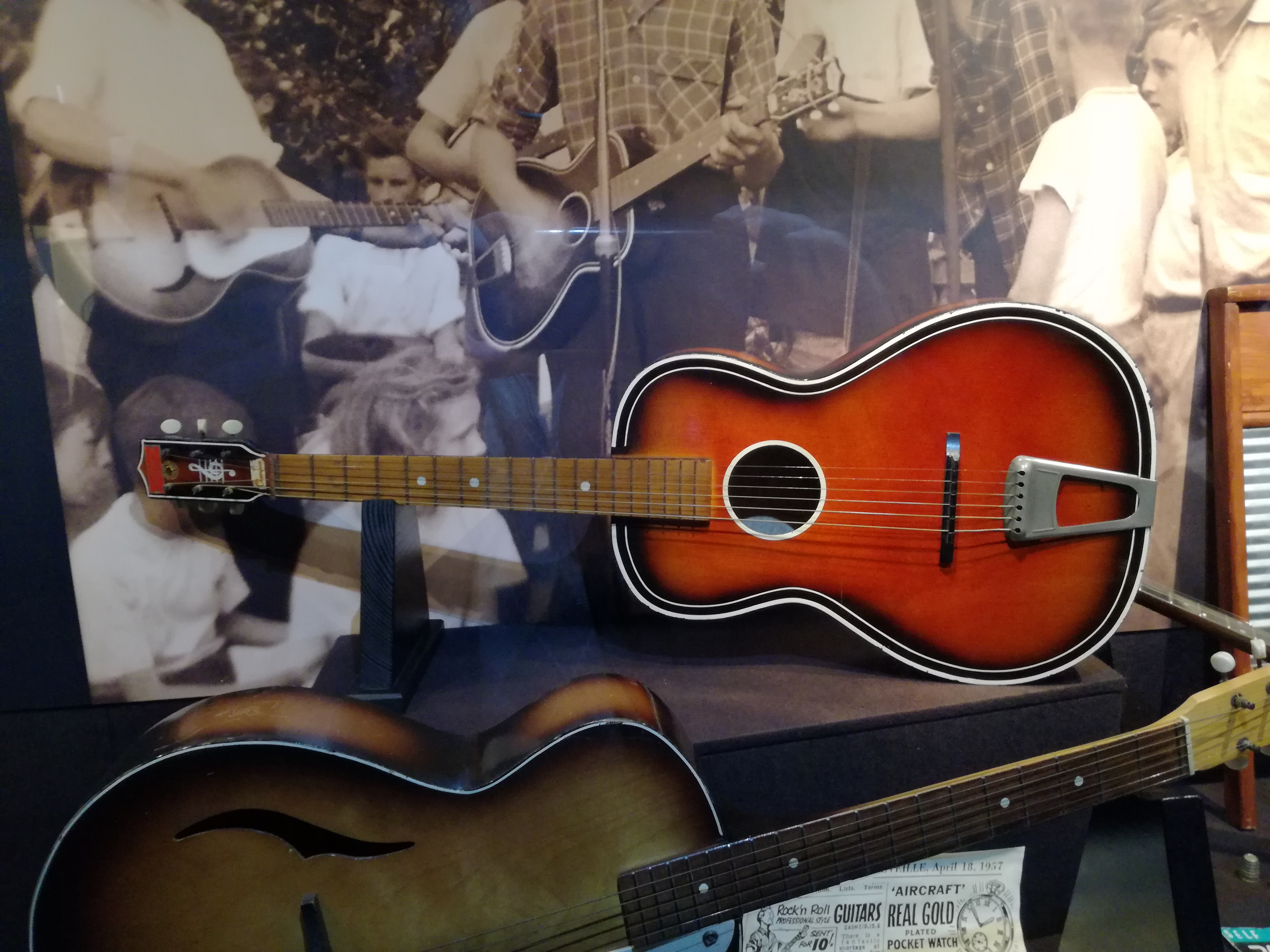 The Beatles Story Museum, Liverpool. Quarry Men instruments. John Lennon's 1st guitar: Gallotone Champion. Bought in 1957.